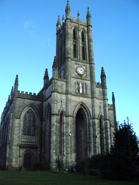 The Tower of All Saints Church, Stand, Whitefield